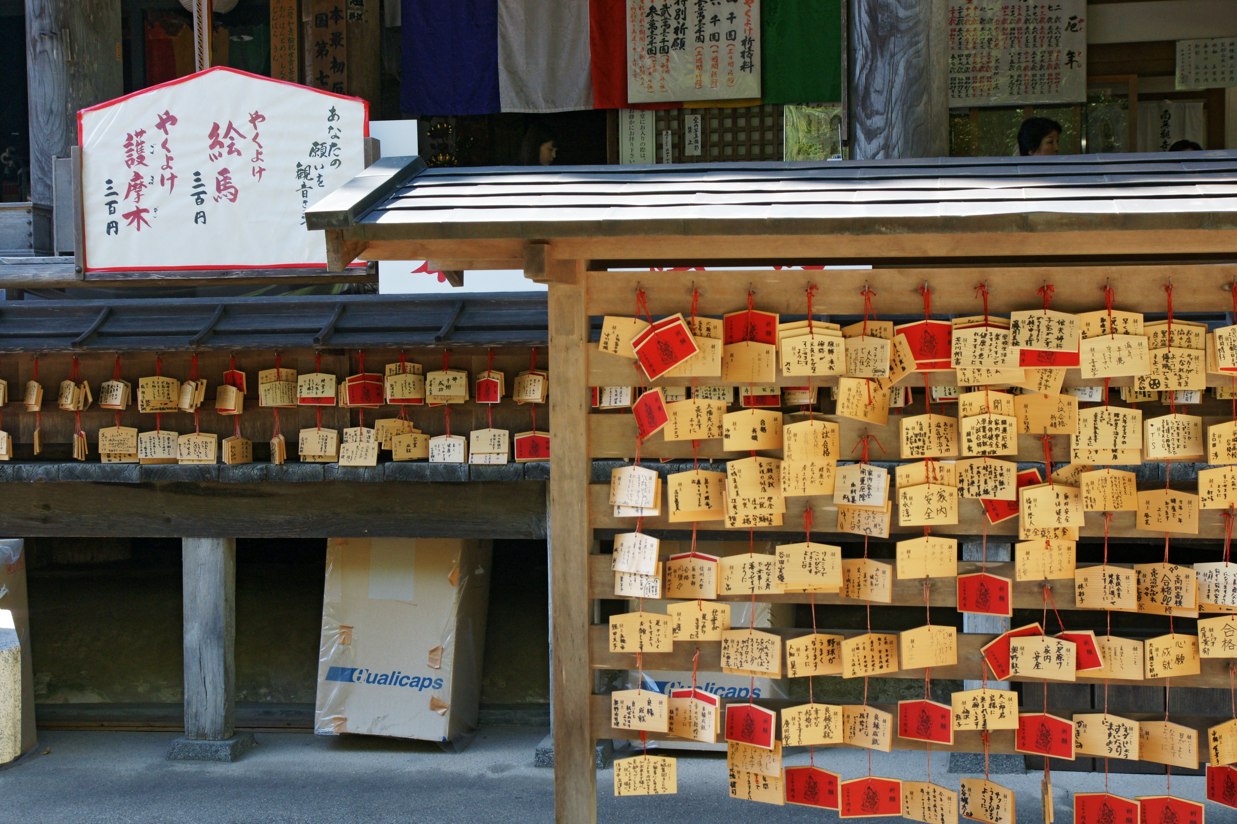 Okadera in Asuka, Nara Prefecture, Japan.